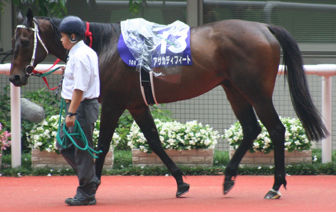 Asaka Defeat(horse, Hanshin Racecourse)